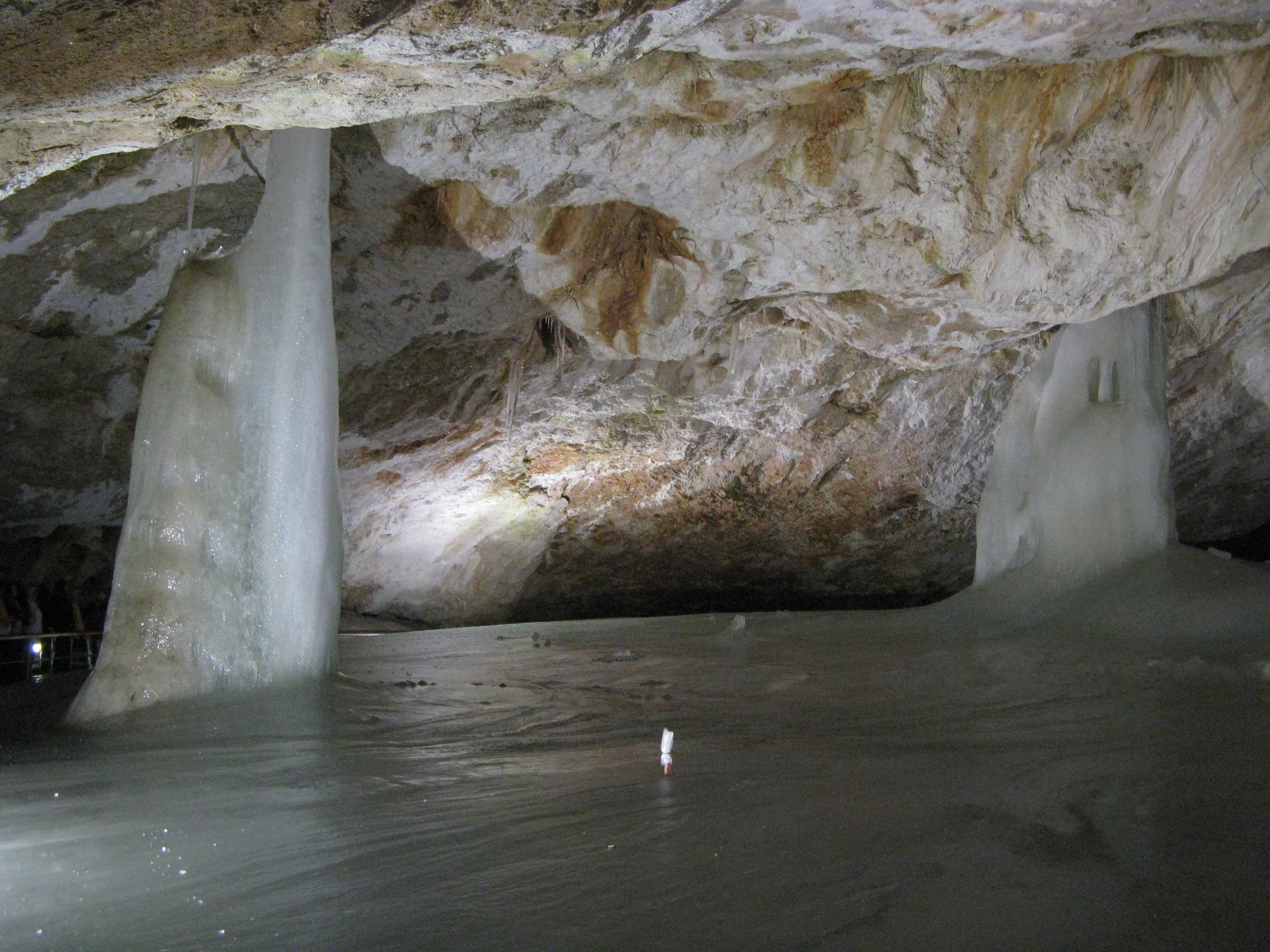 Dobšinská Ice Cave ice form "Altar" and "Well"